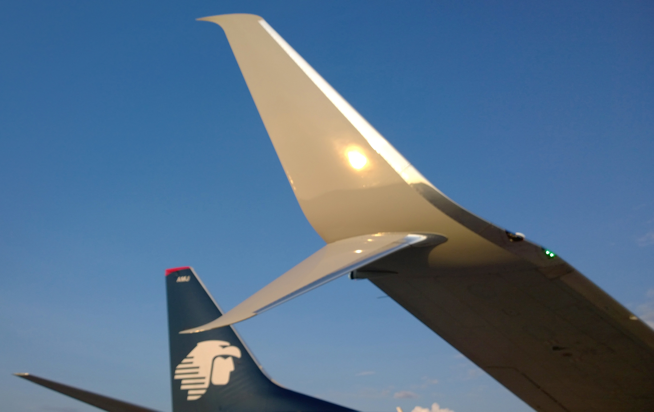 retrofited Split Scimitar Winglet on an Aeromexico`s B737-800